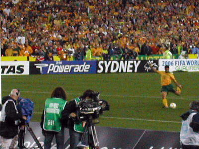 I took this photo myself. I was at the game and took it with my own camera.